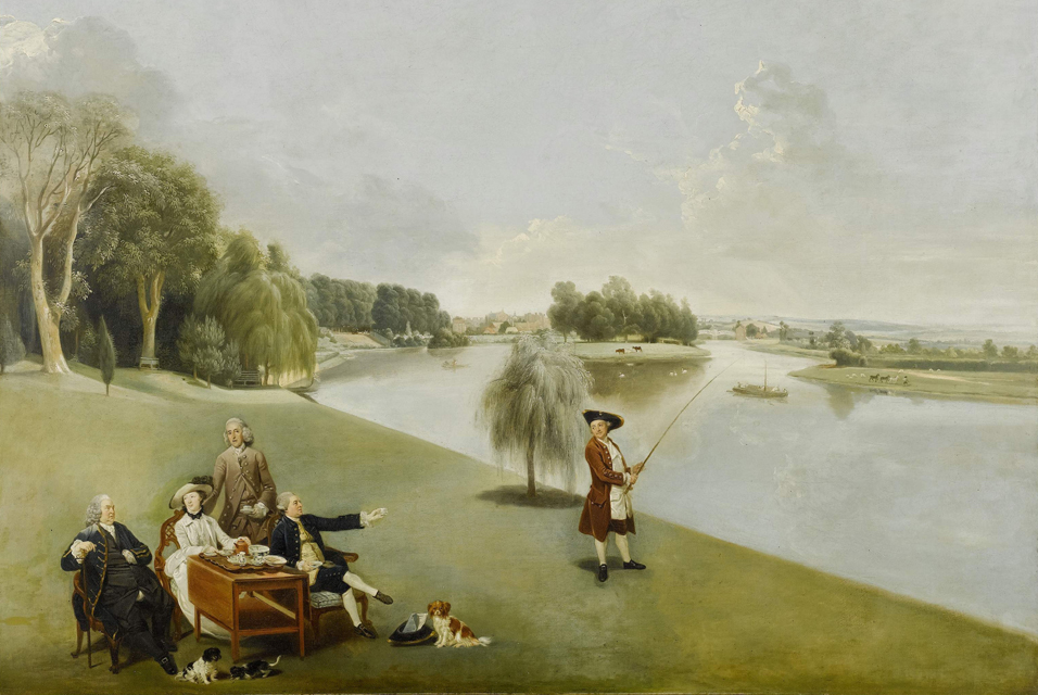 The Garden at Hampton House, with Mr and Mrs David Garrick taking tea, painting by Johann Zoffany, 1762